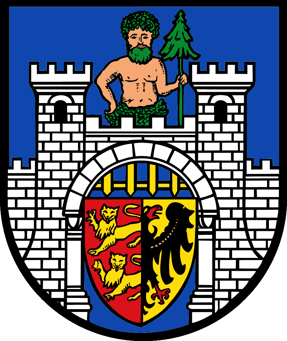 Coat of arms of the city of Bad Harzburg